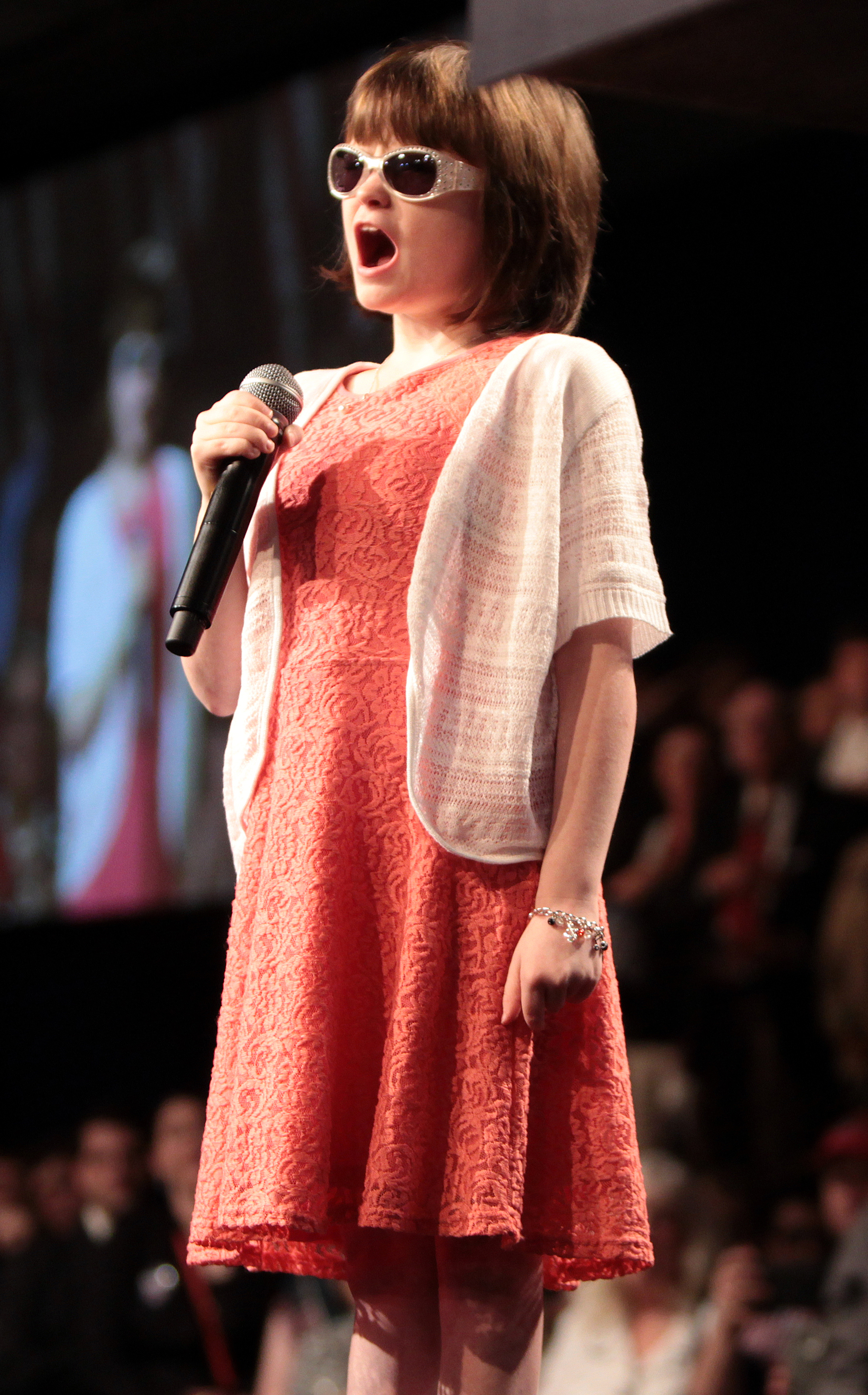 Marlana VanHoose performing in Louisville, Kentucky.